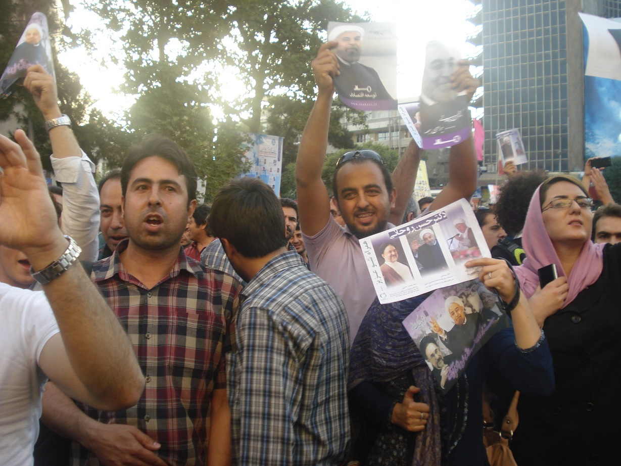 Hassan Rouhani's supporters, Valiasr street